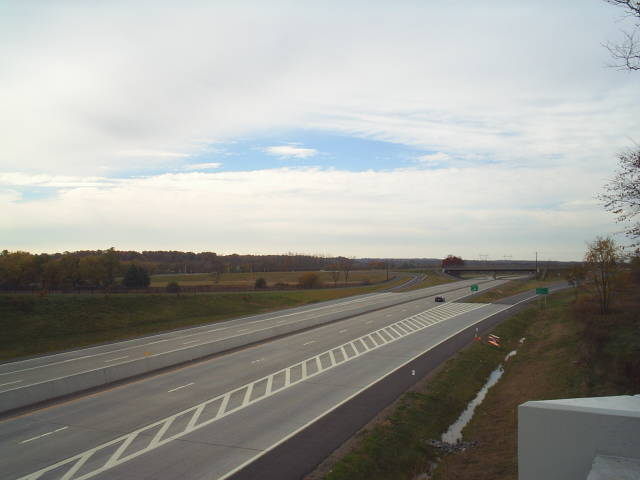 Looking west at the interchange between New York State Route 49 and New York State Route 291 in Marcy.